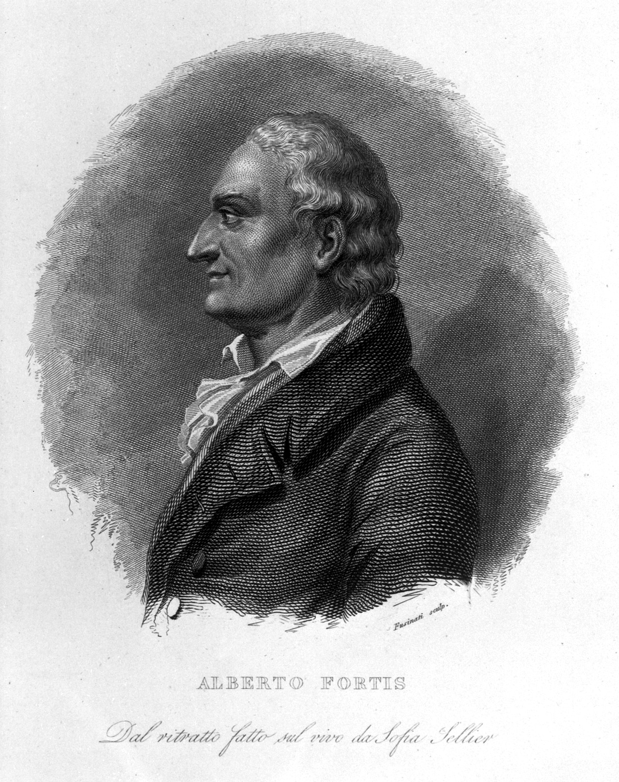 Alberto Fortis. Line engraving by G. Fusinati after Sofia Sellier. Iconographic Collections Keywords: Alberto Fortis; Sofia Sellier; G. Fusinati